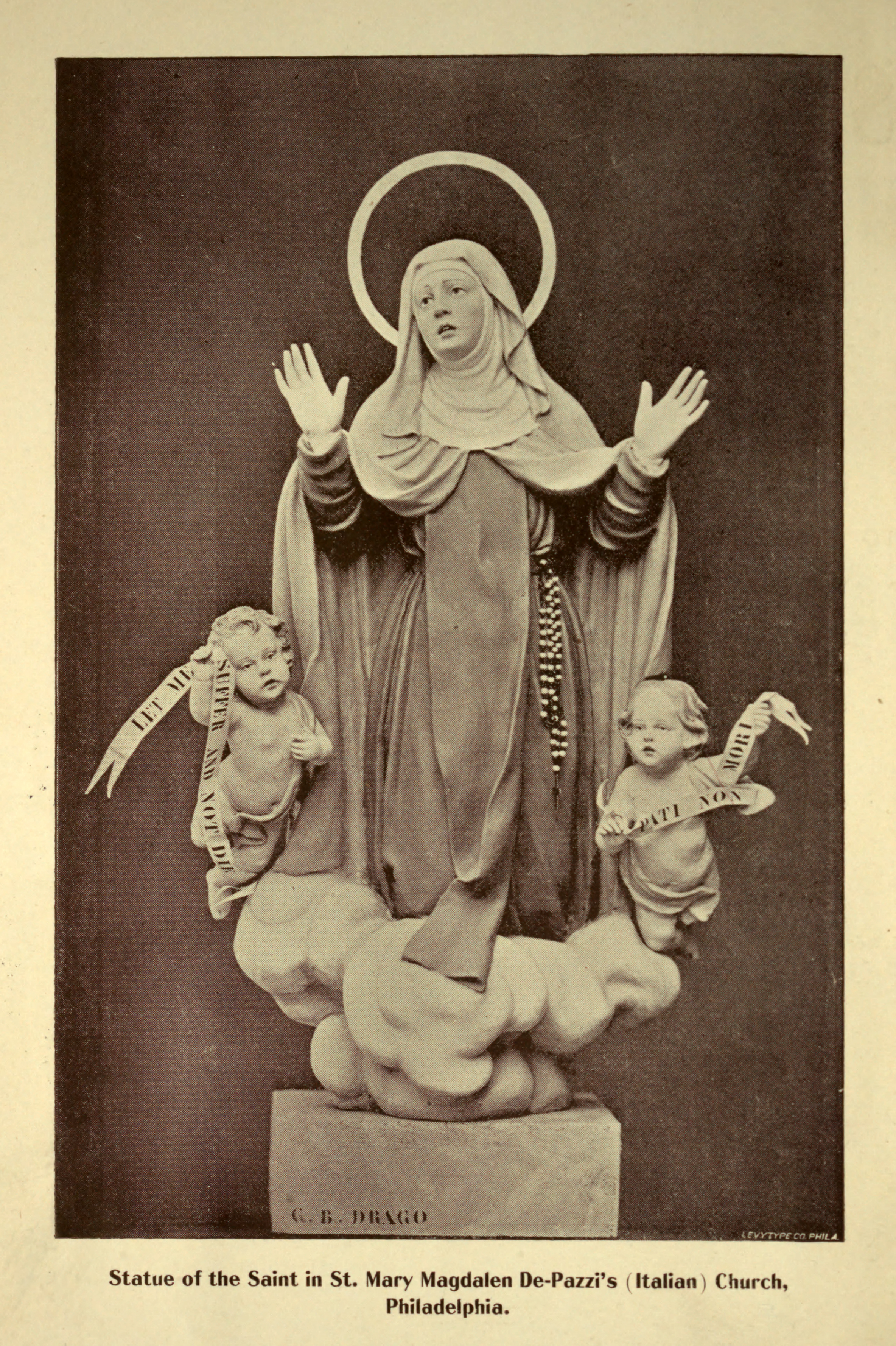 Statue of the Saint in St Mary Magdalen De-Pazzi's (Italian) Church, Philadelphia (1900) From The Life and Works of St Mary Magdalen De-Pazzi, Compiled by the Rev Placido Fabrini, Philadelphia, 1900, Translated from the Florentine Edition of 1852 and Published by the Rev Antonio Isoleri, Miss. Ap. Rector of the new St Mary Magdalen De-Pazzi's Italian Church, Philadelphia, Pa, USA